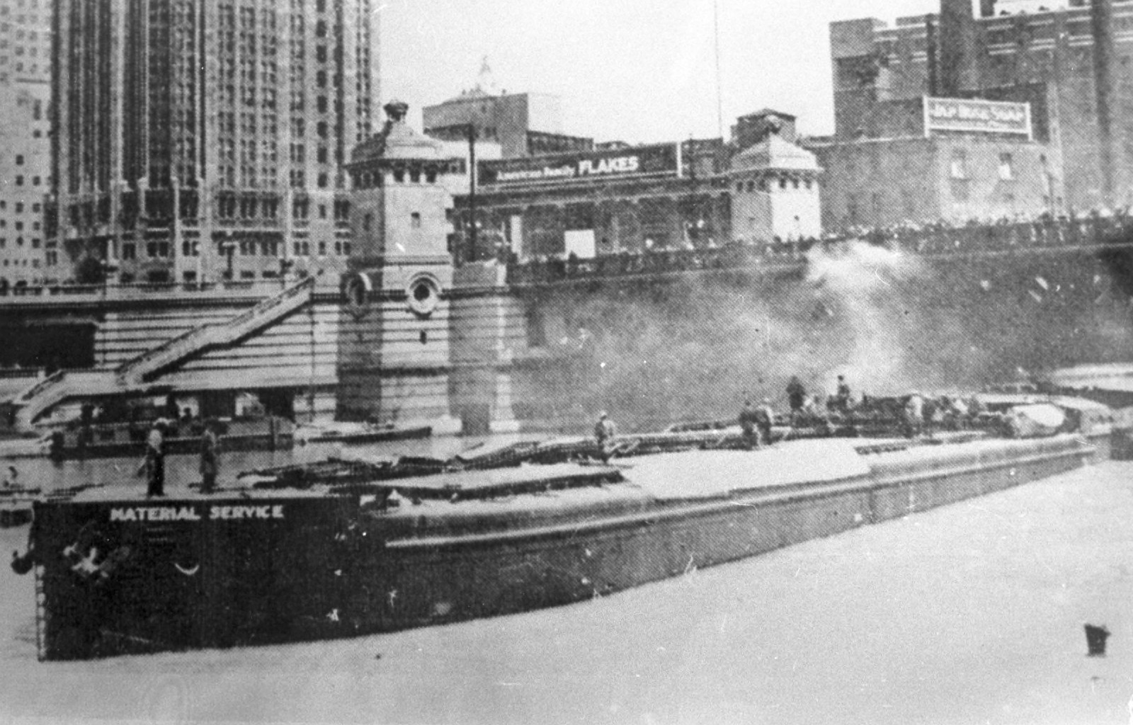 The work barge Material Service in Chicago, Illinois